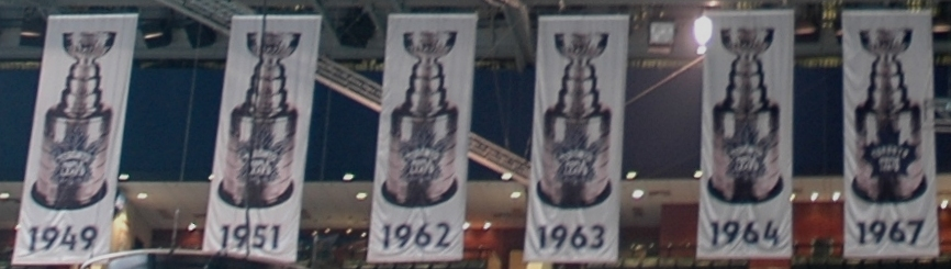 Toronto Maple Leafs Stanley Cup Banners in the Air Canada Center (Part2)